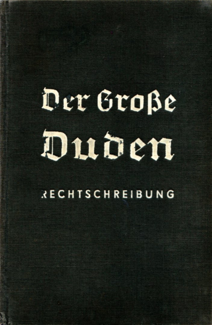 Der Große Duden - Orthography; Bibliographisches Institut AG. in Leipzig, 1934